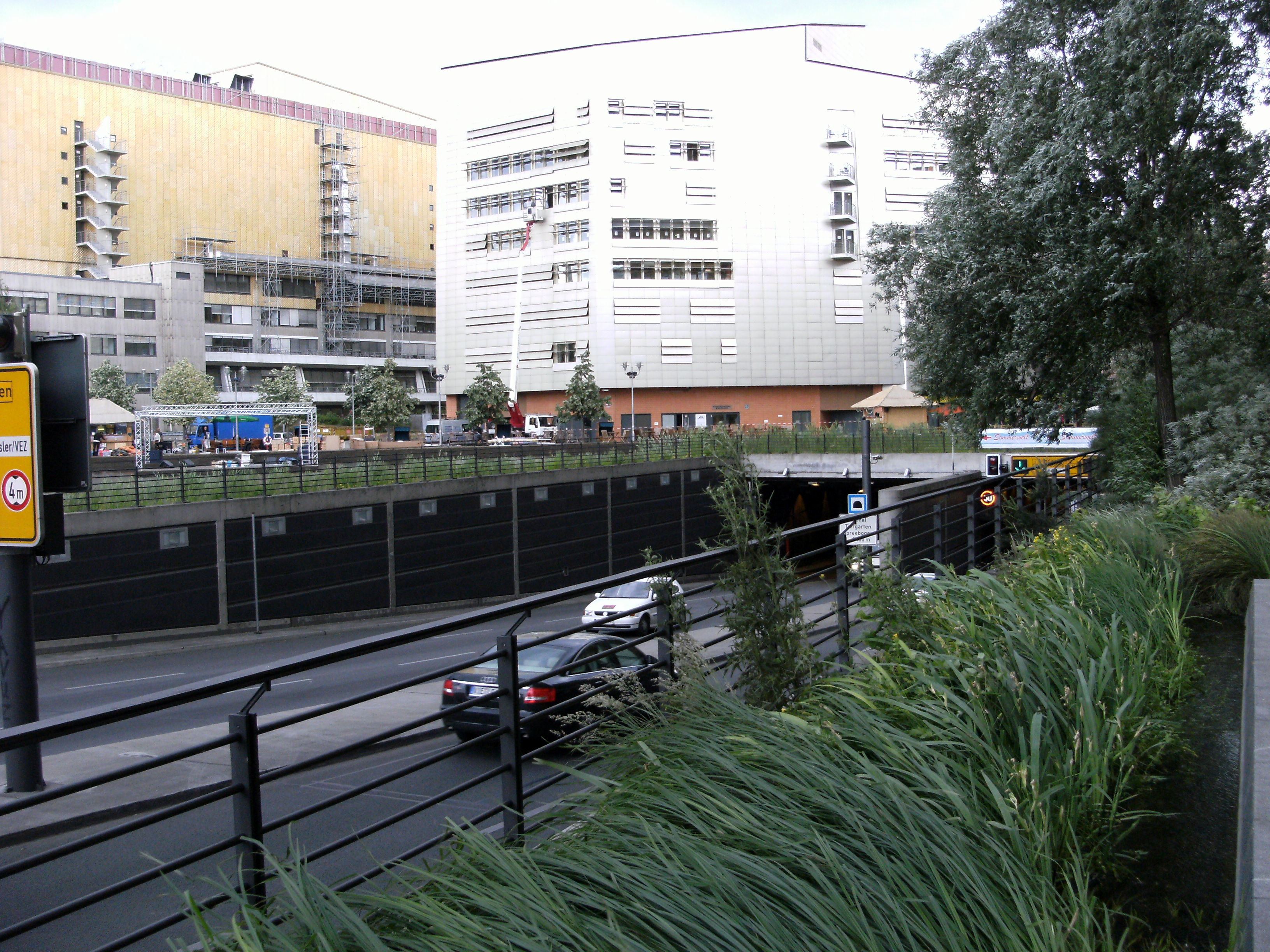 Berlin in june 2008.